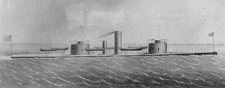 A cropped lithograph of the USS Monadnock. Original found at